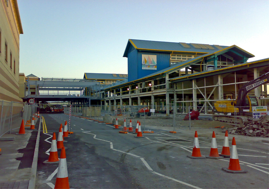 Picture of 'The Boardwalk', a new entertainment complex under construction at Lakeside Shopping Centre, Thurrock (Taken 3rd September 2006 by McDRye)